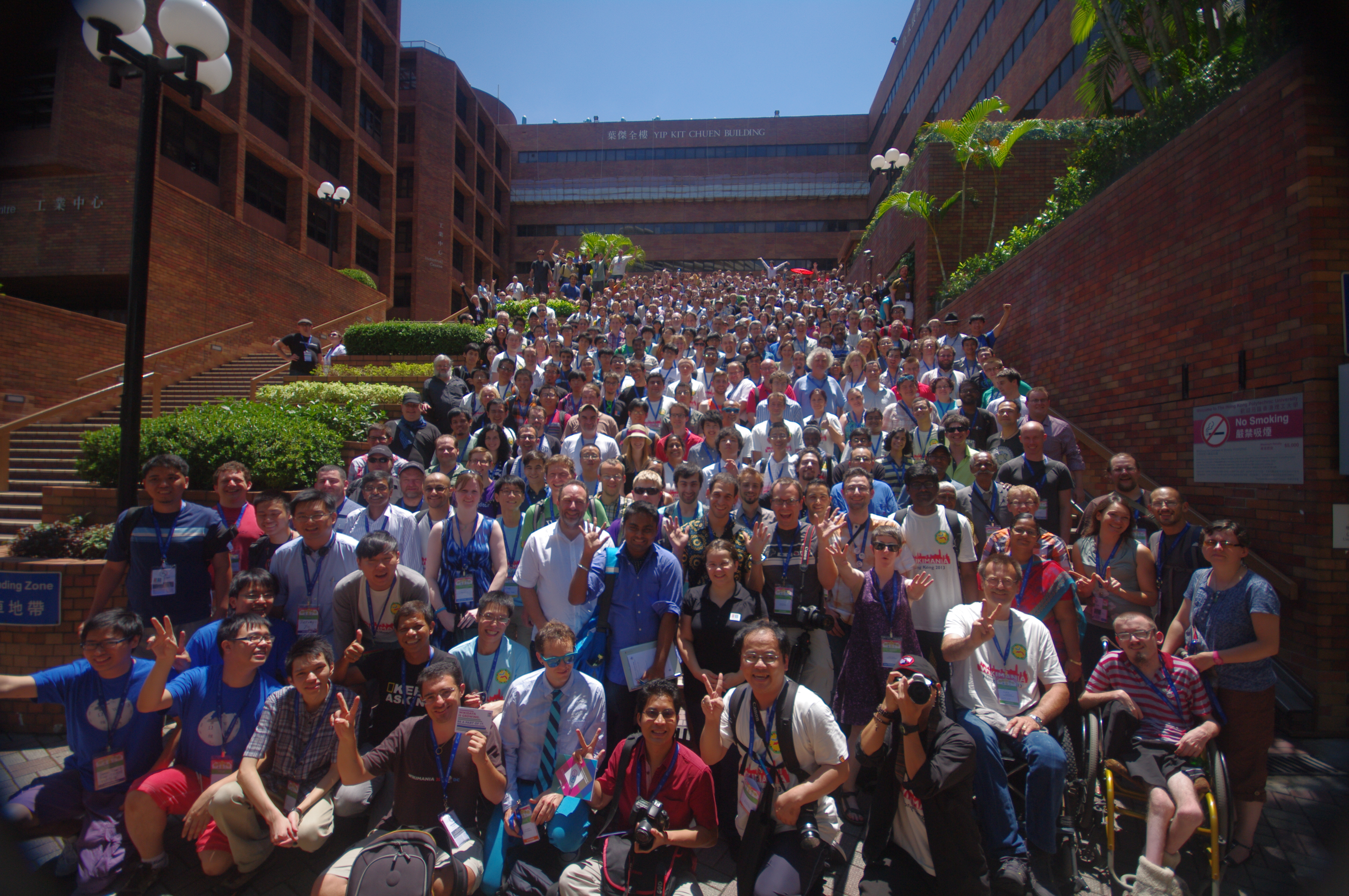 Wikimania 2013 Group Photograph